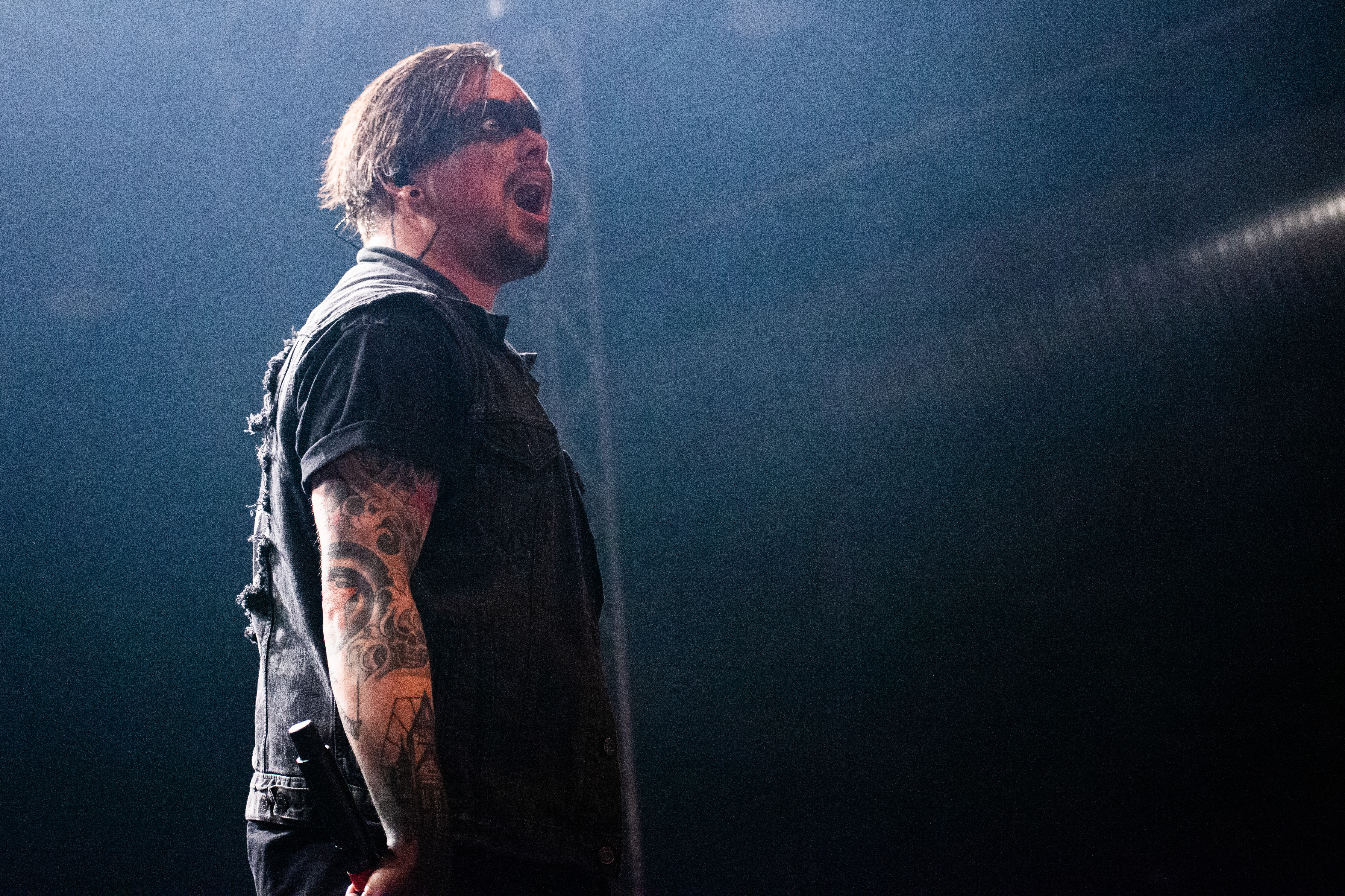 Bastian BastiBasti Sobtzick (Vocals) of German metalcore group Callejon during a show at Impericon Festival (2019), Turbinenhalle, Oberhausen (DEU) /// leokreissig.de for Wikimedia Commons